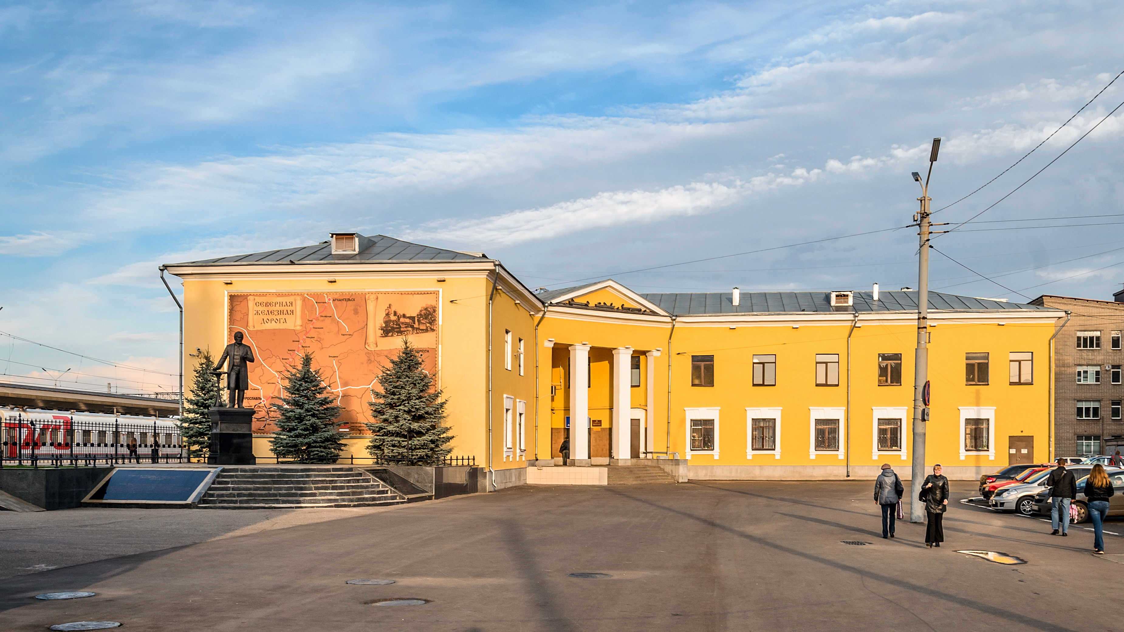 Railway Station Square of Yaroslavl